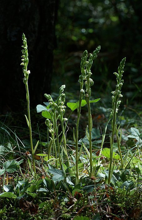 Goodyera repens, group of plants, Rhön, Germany